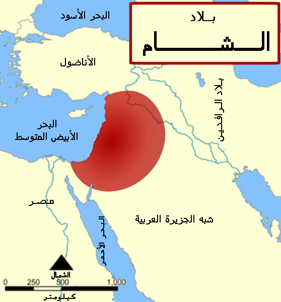 translated file from commons